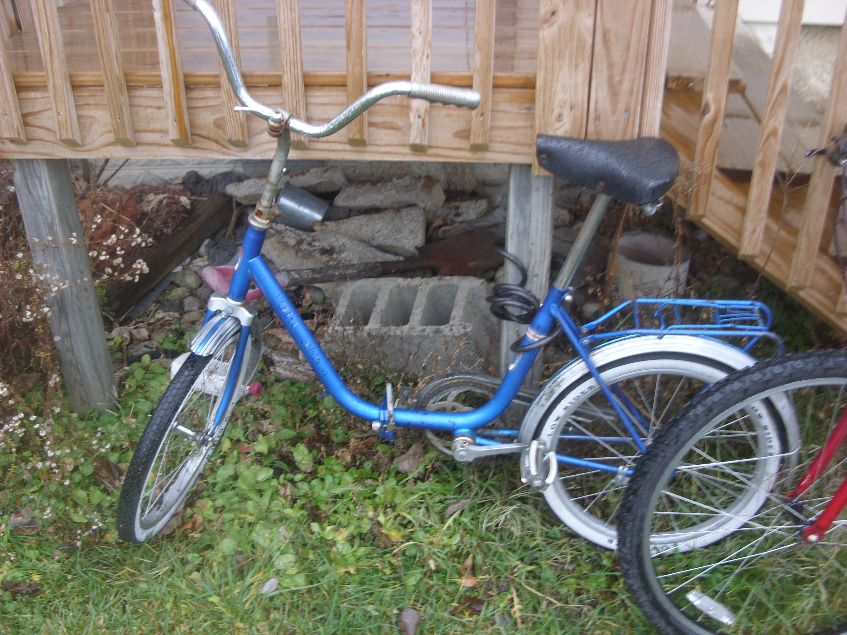 Low Rider